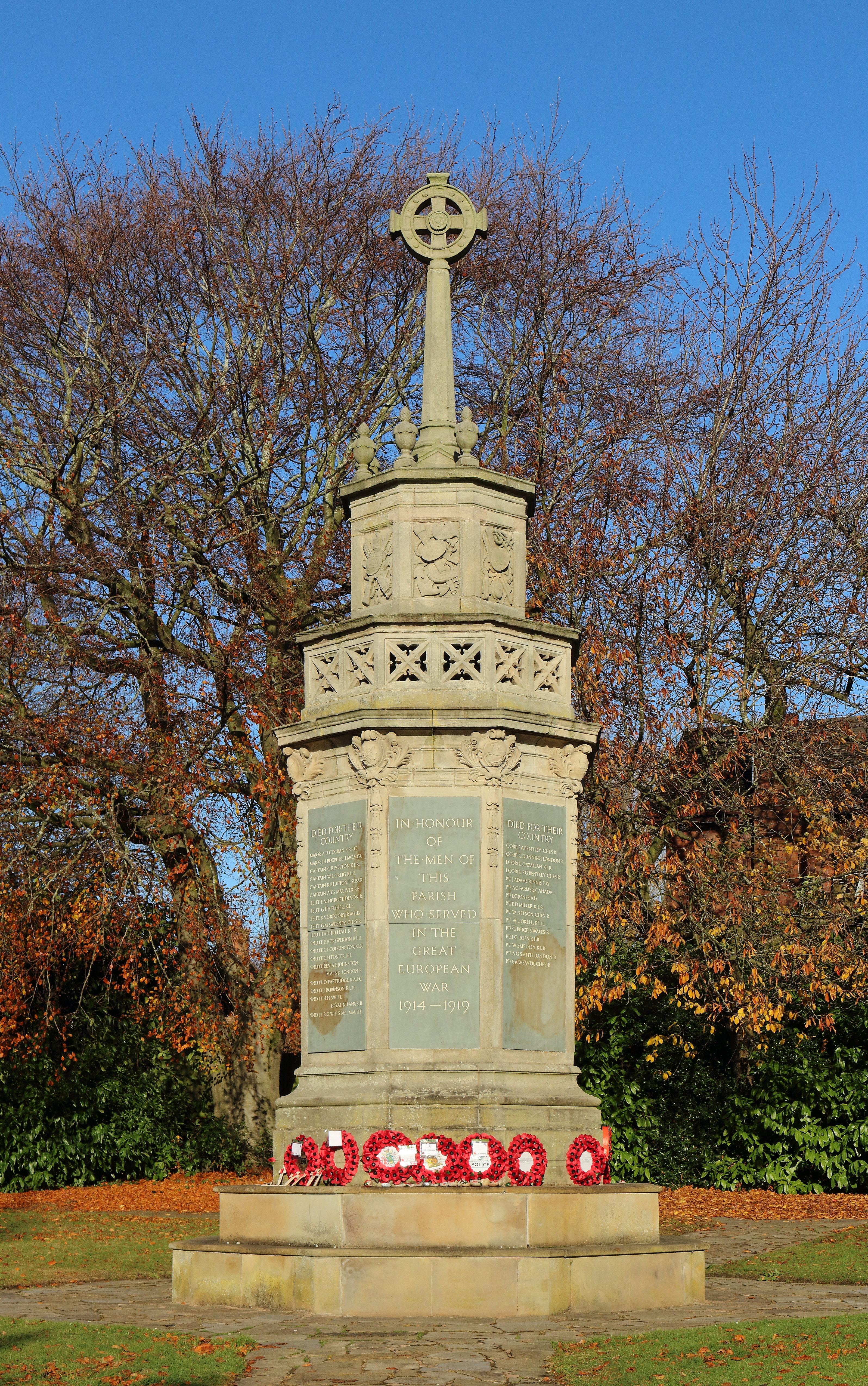 Grade II listed war memorial at the corner of Osmaston Road and Prenton Lane, Prenton, Birkenhead. Erected in 1921, it was badly damaged in the blitz of 1941 and later reconstructed. Refurbished in 2014.